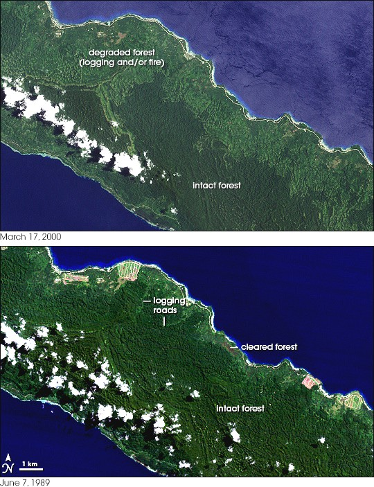 This pair of natural-color images shows the impact of logging and forest fires on northwestern New Ireland in 2000 (top) compared to 1989 (bottom). In both images, intact tropical rainforests appear deep green, while plantations and degraded forest appear lighter green. In 1989, clearing was restricted to a narrow rim at the coastline, but logging roads were already visible. Intensive logging took place on the island in the 1990s, and then in 1996, fires that began in the grassy and brushy areas near the coast invaded the logged forest and spread inland to intact forests, causing severe damage over a large area. Transportation infrastructure, particularly roads and coastal shipping areas, makes some forests more accessible to loggers than others. Nearly 60 percent of the forests on the eastern islands of Papua New Guinea are accessible to logging, and by 2002, 63 percent of the accessible forests had been deforested or degraded.